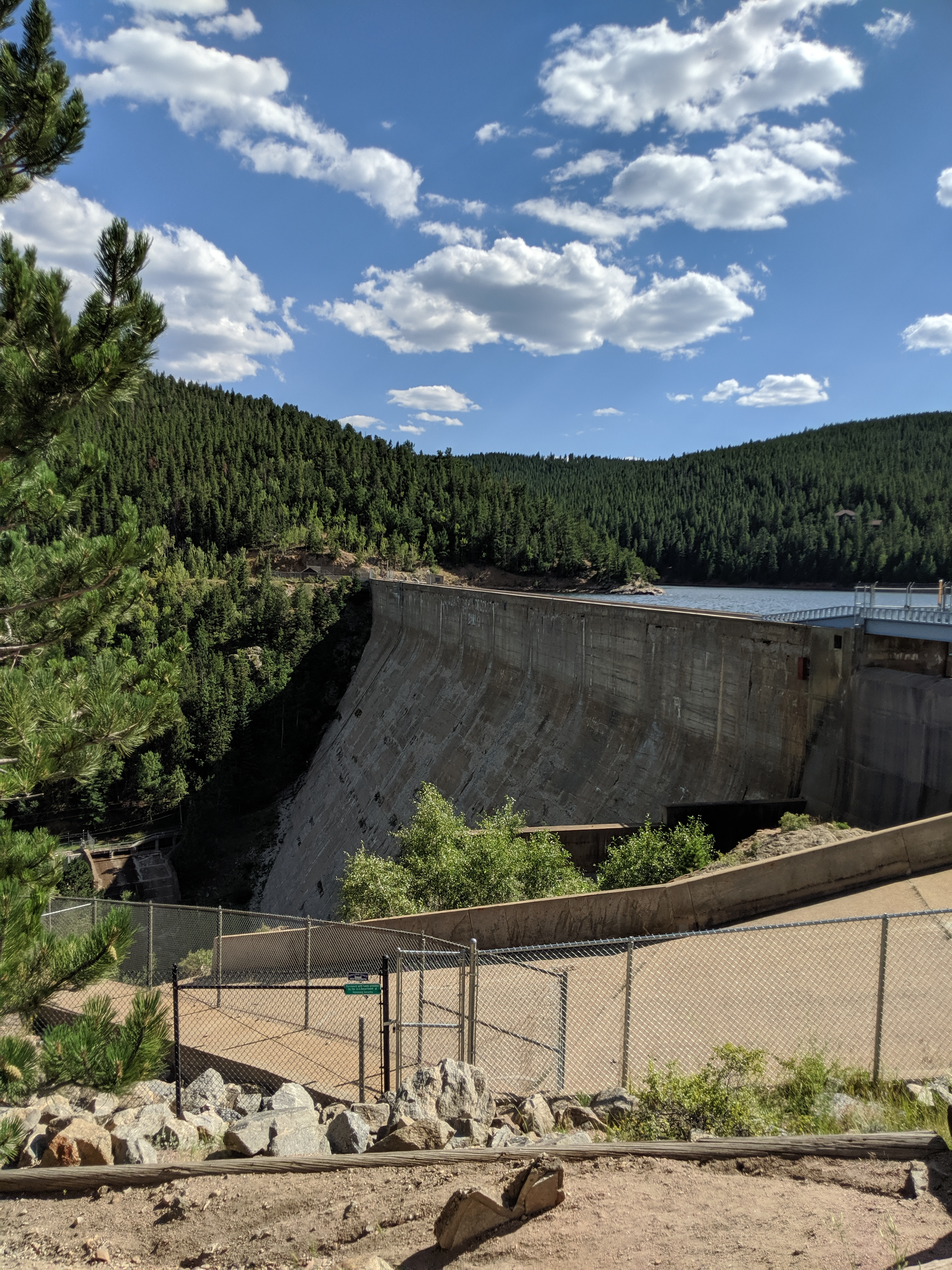 view looking south from Colorado Route 119 of Barker Dam in Nederland, Colorado, United States